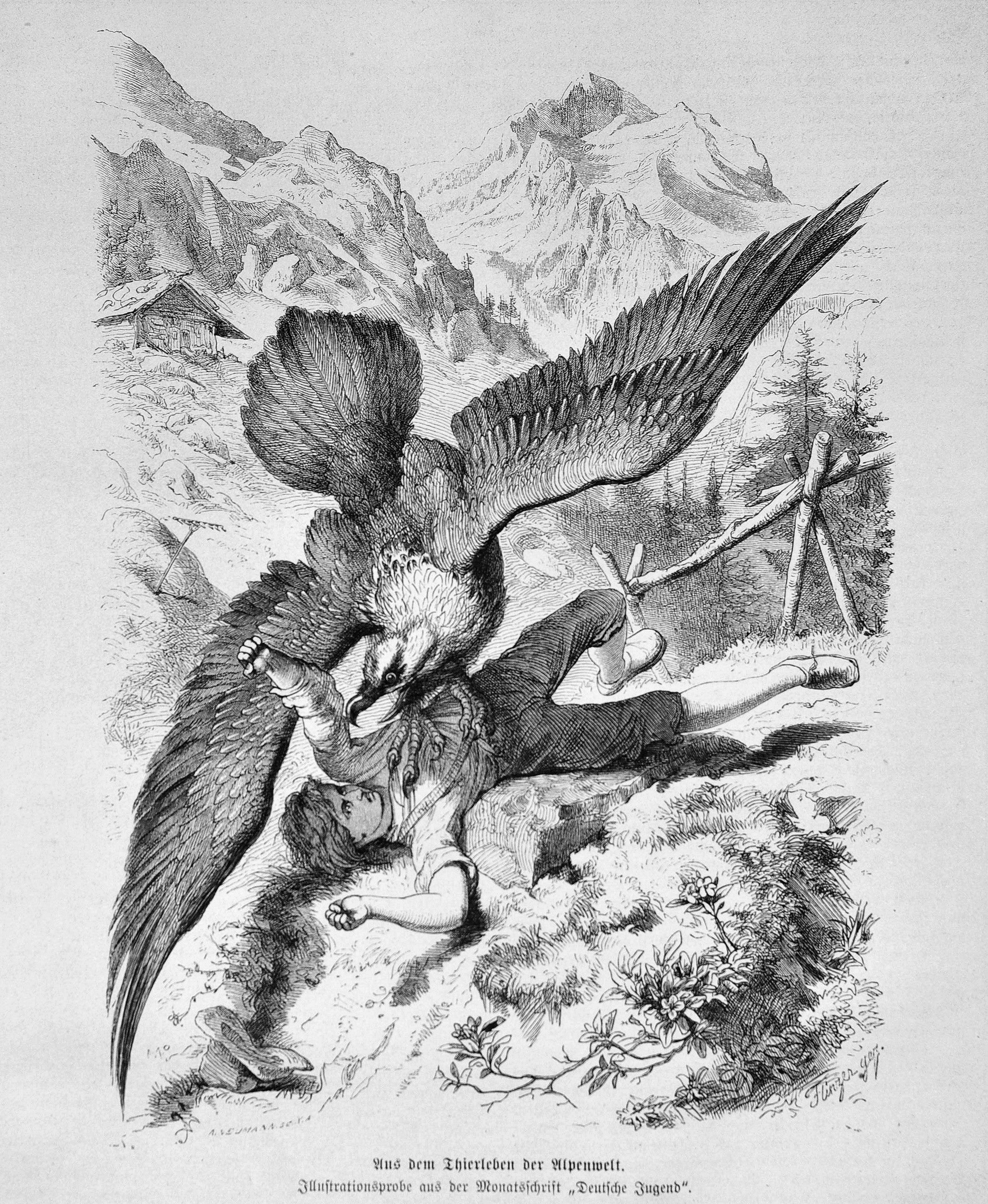 caption: "Aus dem Thierleben der Alpenwelt. Illustrationsprobe aus der Monatsschrift „Deutsche Jugend“."